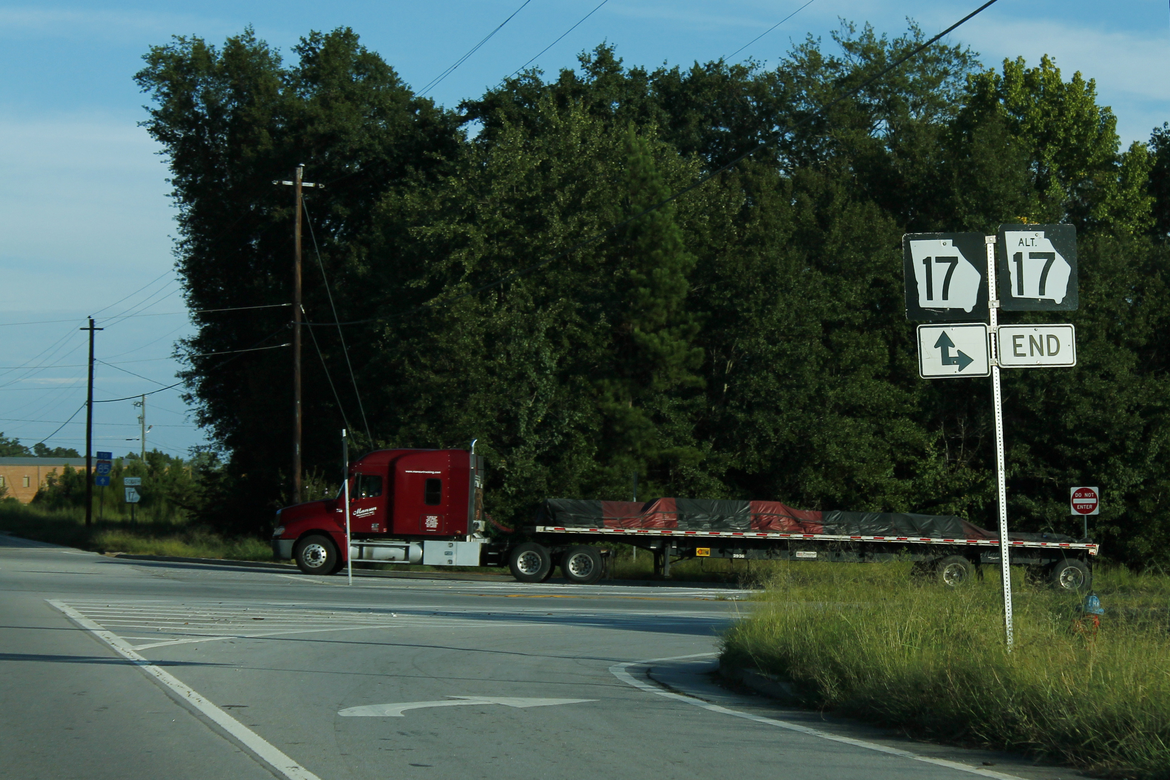 GA17AltEnd-GA17sSignRoad